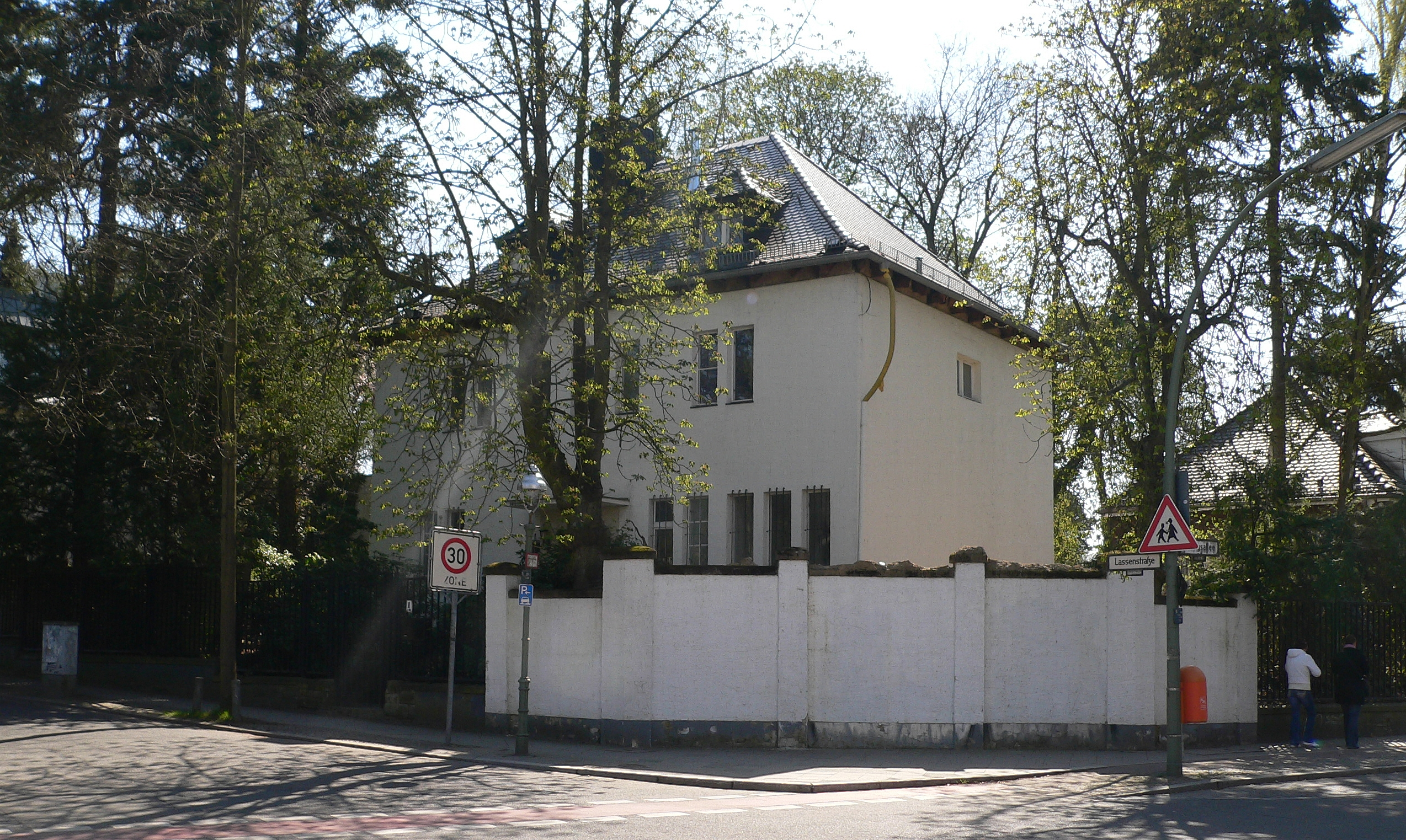 Berlin-Grunewald Lassenstraße, villa of Harald Juhnke